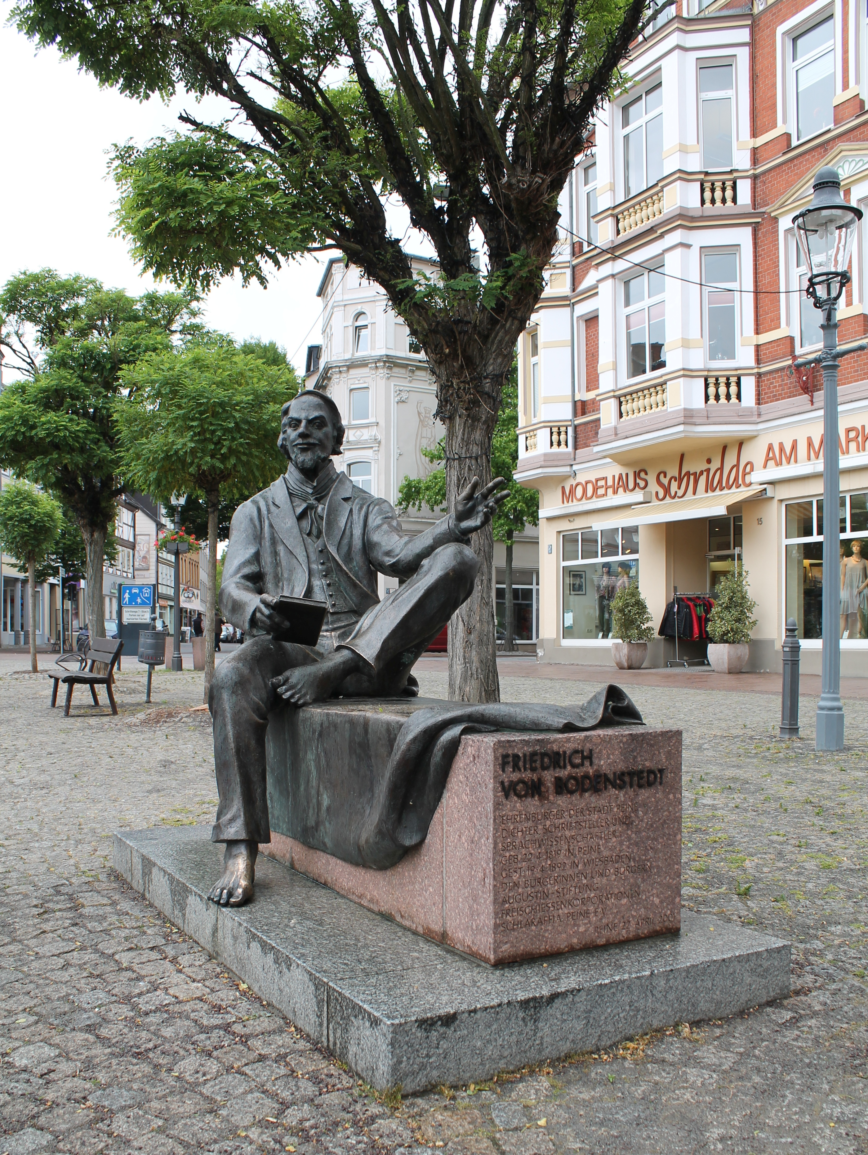 Friedrich von Bodenstedt sculpture in Peine, Lower Saxony, Germany. Von Bodenstedt sits on a divan, reciting a poem.